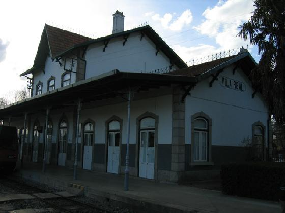 Train Station in Vila Real, Portugal